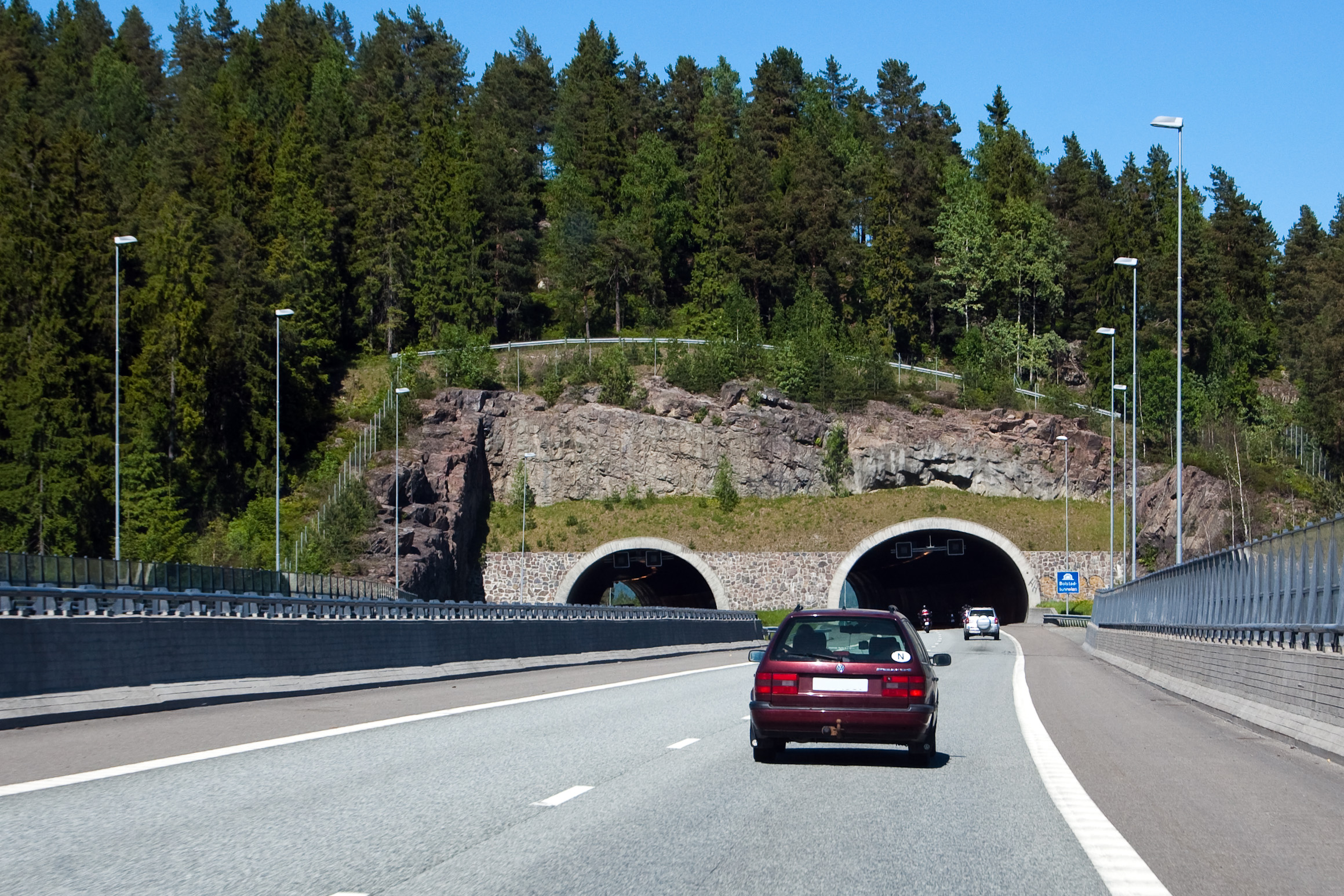 Bolstadtunnelen, a tunnel on E18 in Vestfold, Norway.